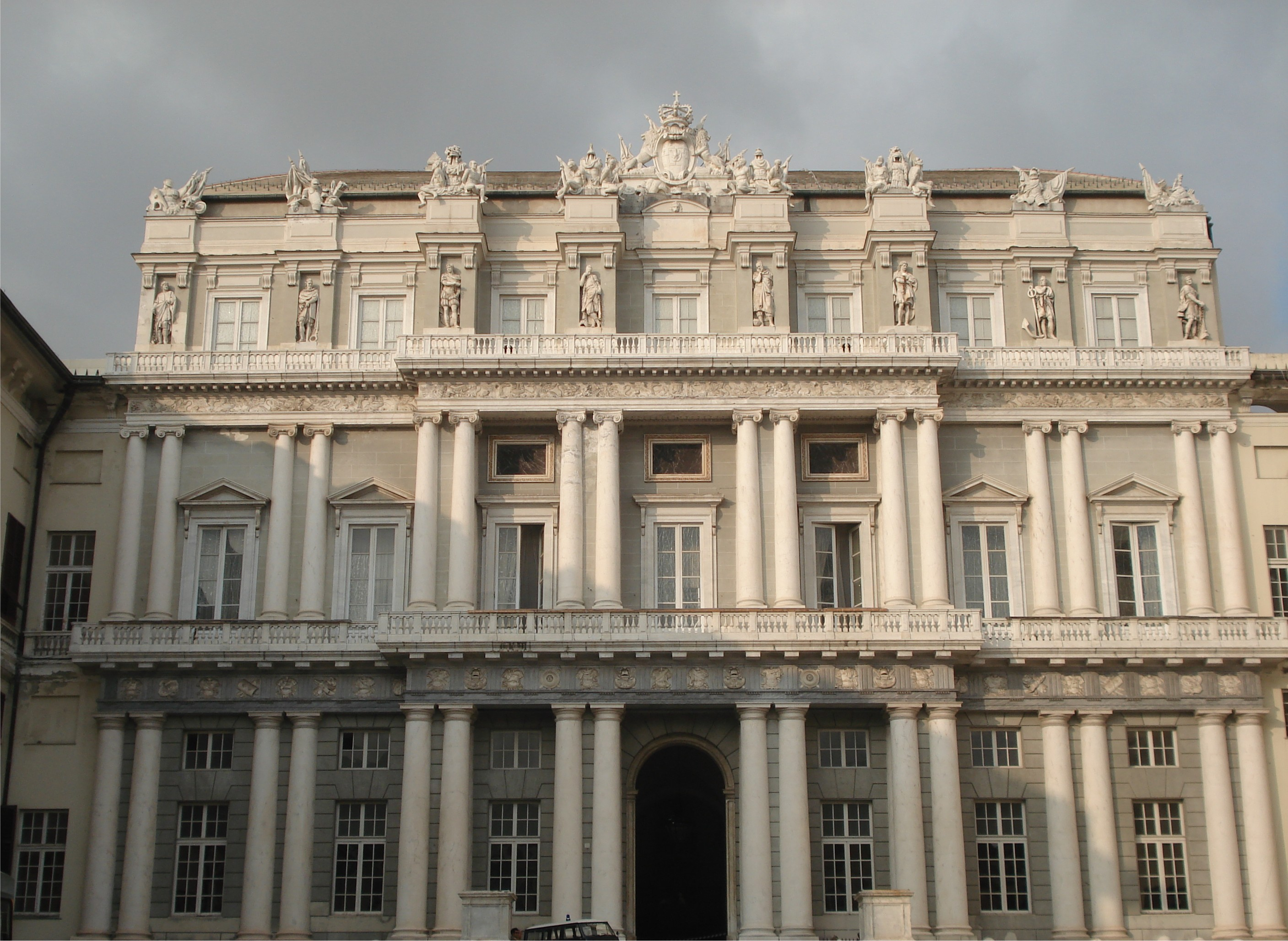 Facade by Simone Cantoni Doge's Palace in Genoa